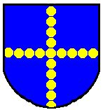 An heraldic cross.